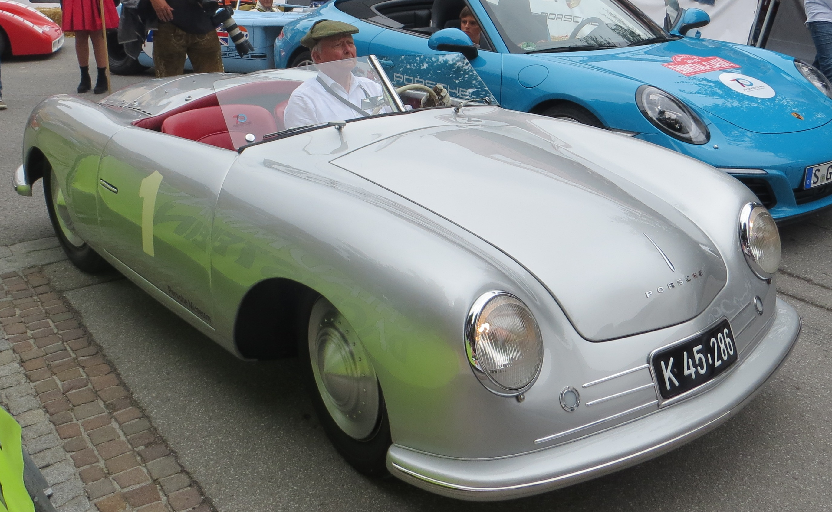 the very first Porsche, this is the first car to ever wear the Porsche name from 1948, behind the wheel: Dr. Porsche